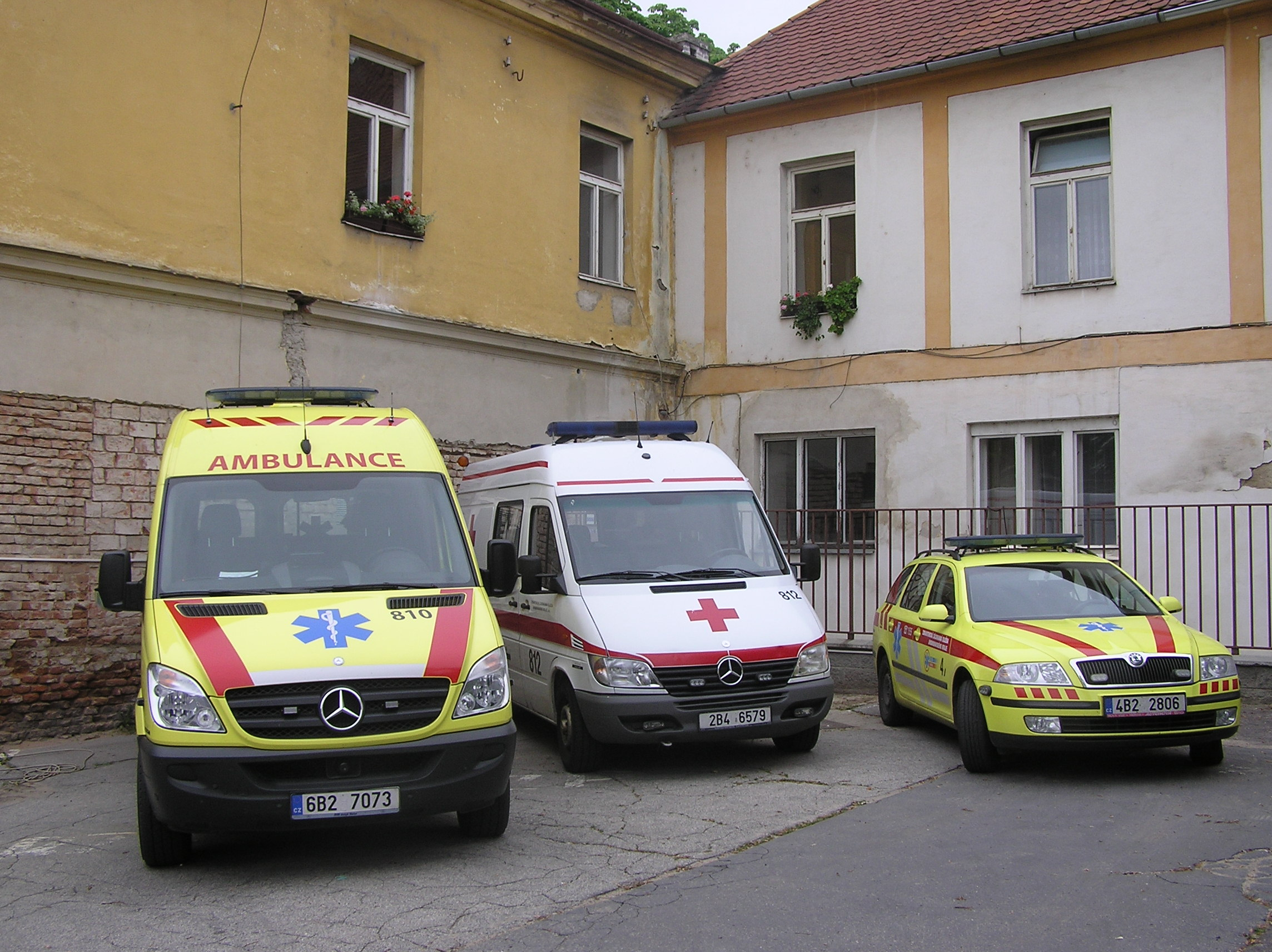 Ambulances of the Emergency Medical Services of the South Moravian Region, Znojmo, Czech Republic